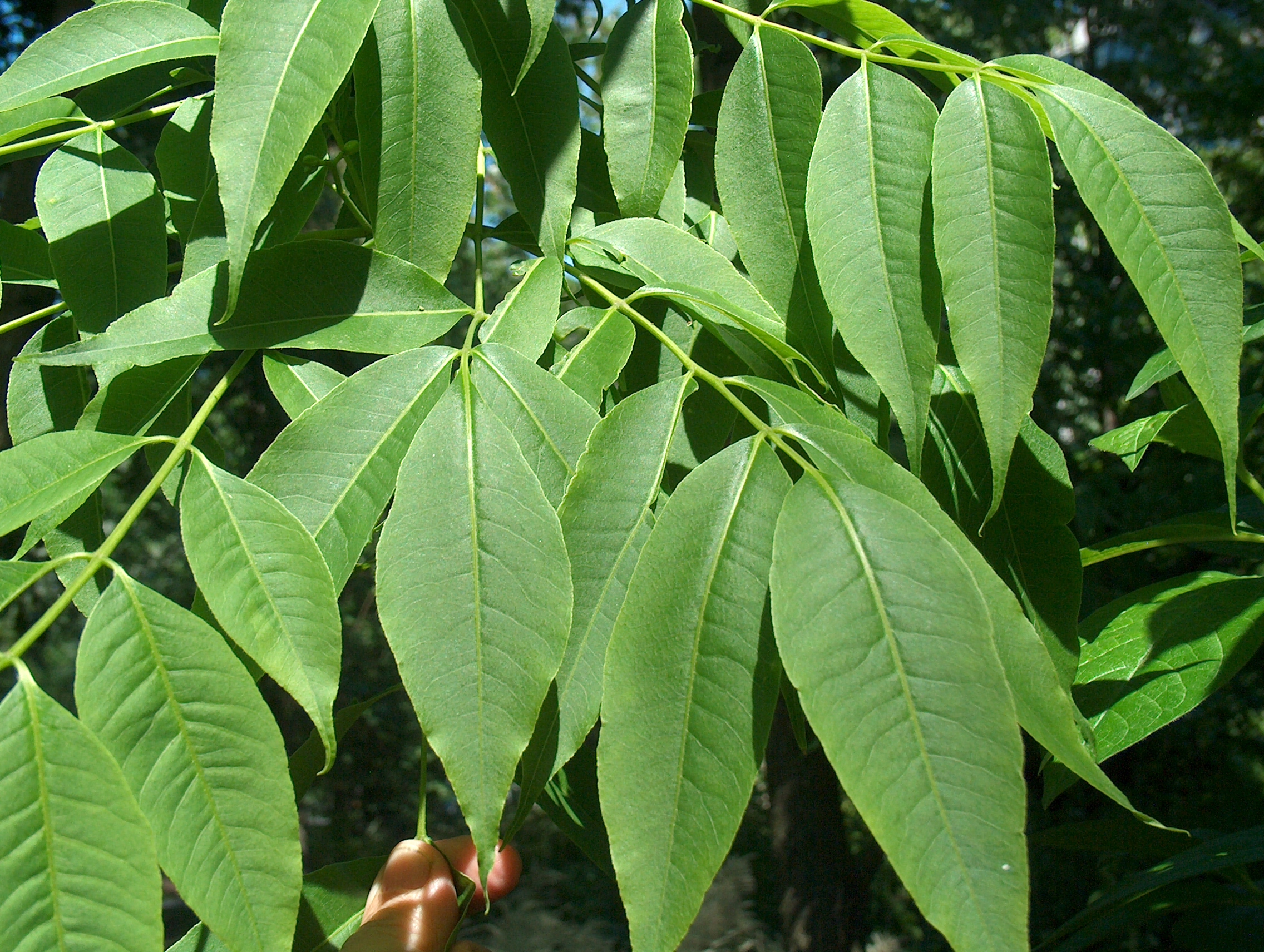 Phellodendron amurense, Amur Corktree - Leaves - University Botanical Garden in Helsinki, Finland